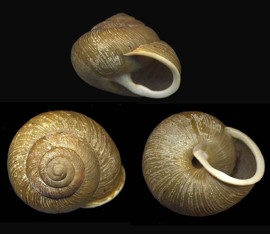 The polygyrid land snail Allogona ptychophora from vicinity of Saltena, Montana; 1950.